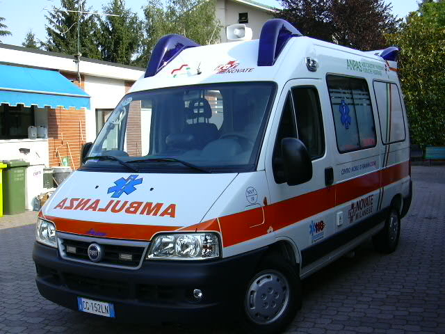 Italian Ambulance - Fiat Ducato II facelift, with "AMBULANZA" in mirror writing ("AZNALUBMA")